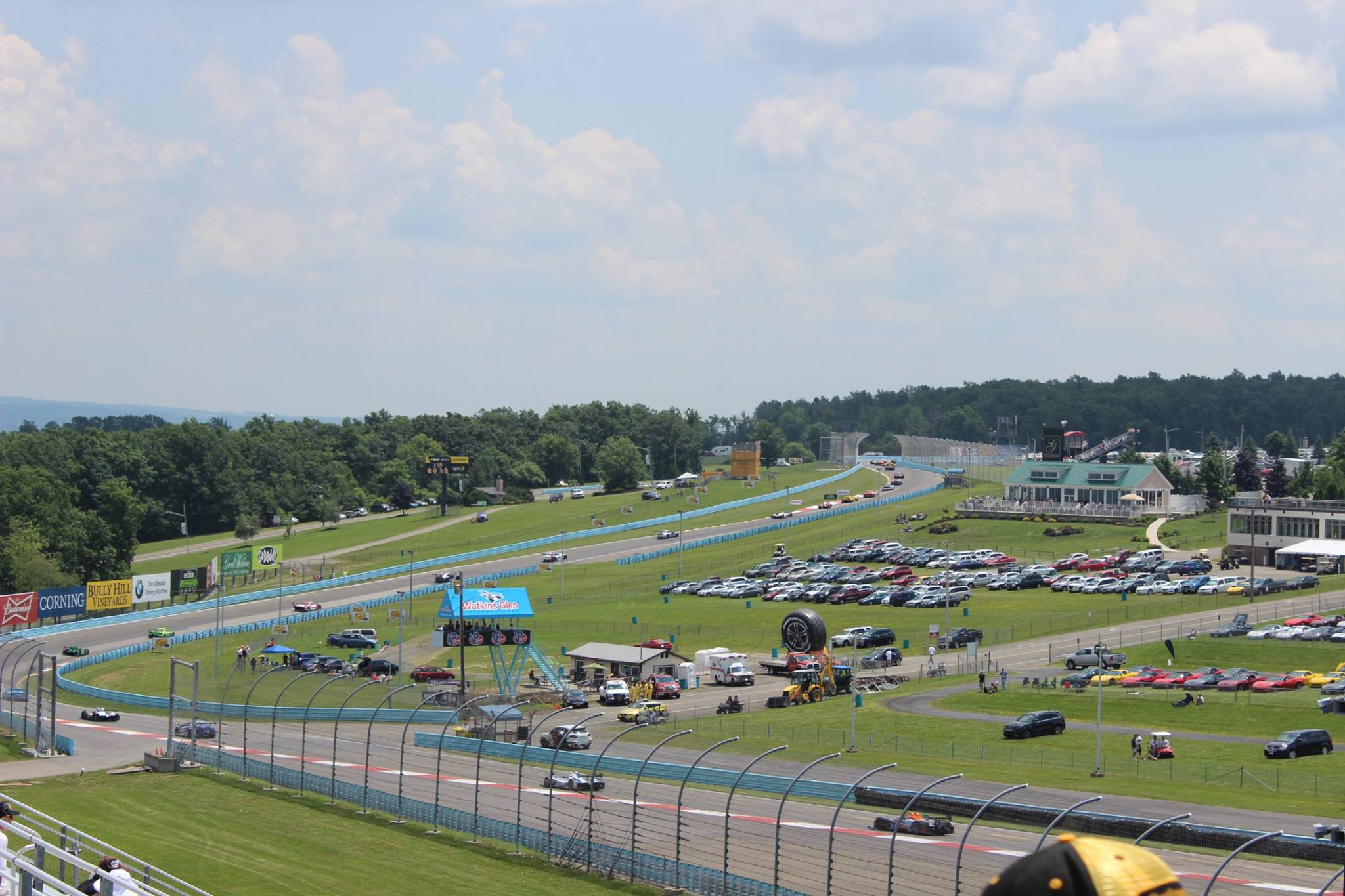 Cars dive into turn one during the 2014 Sahlen's Six Hours of The Glen.